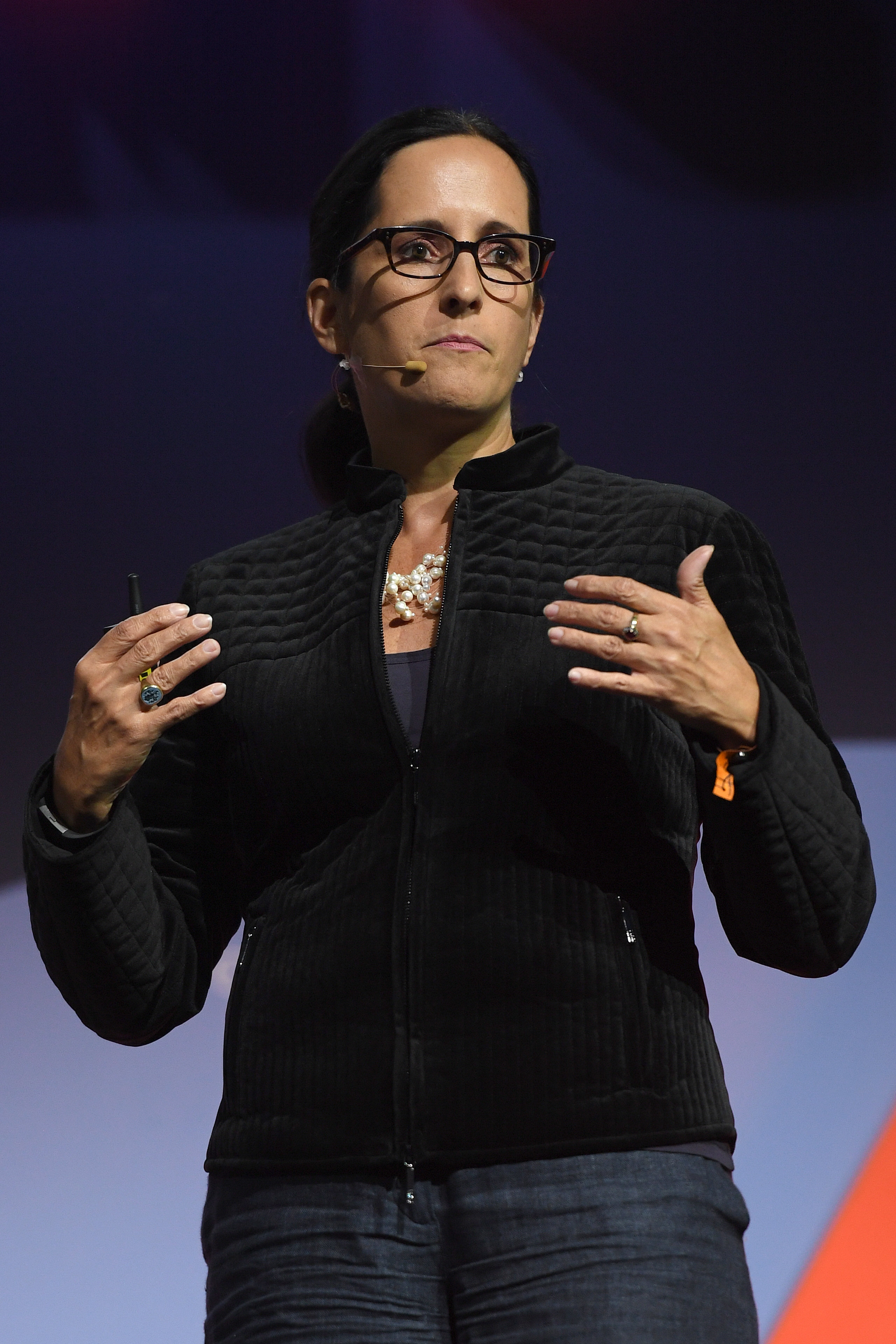 7 November 2018; Katharina Borchert, Mozilla on BINATE.IO Stage during day two of Web Summit 2018 at the Altice Arena in Lisbon, Portugal. Photo by Eóin Noonan/Web Summit via Sportsfile